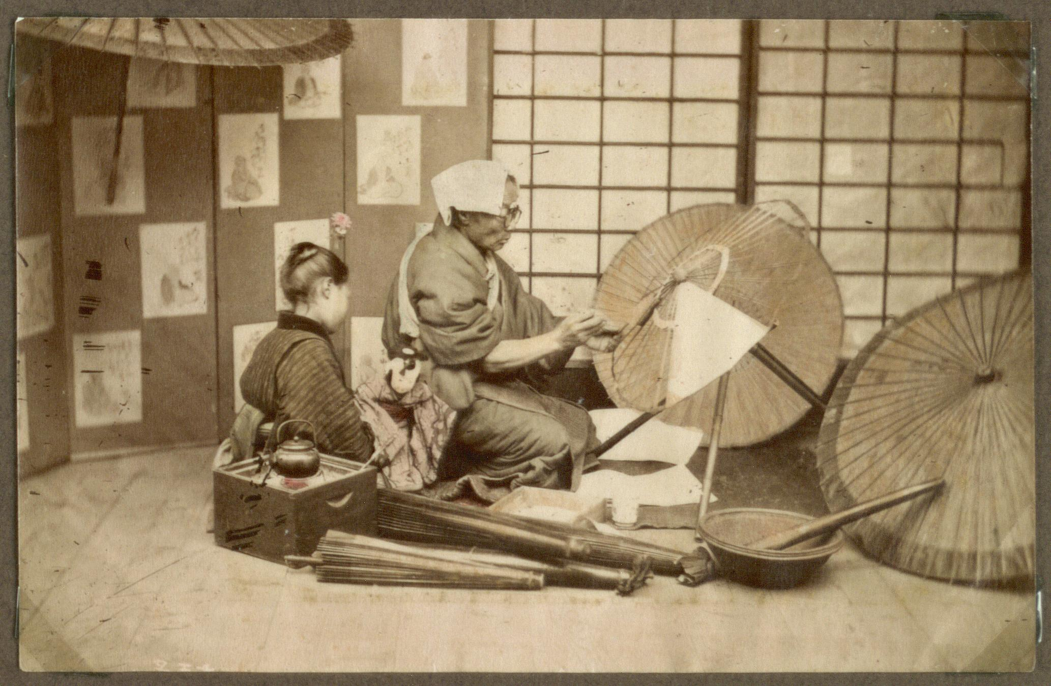 Working on umbrella. Year: 1860-1910